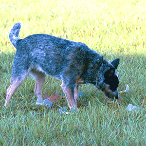 Australian Cattle Dog doing the "scent articles" obedience exercise in competition Photo by Kathy Buetow. Submitted by User:jimhutchins.